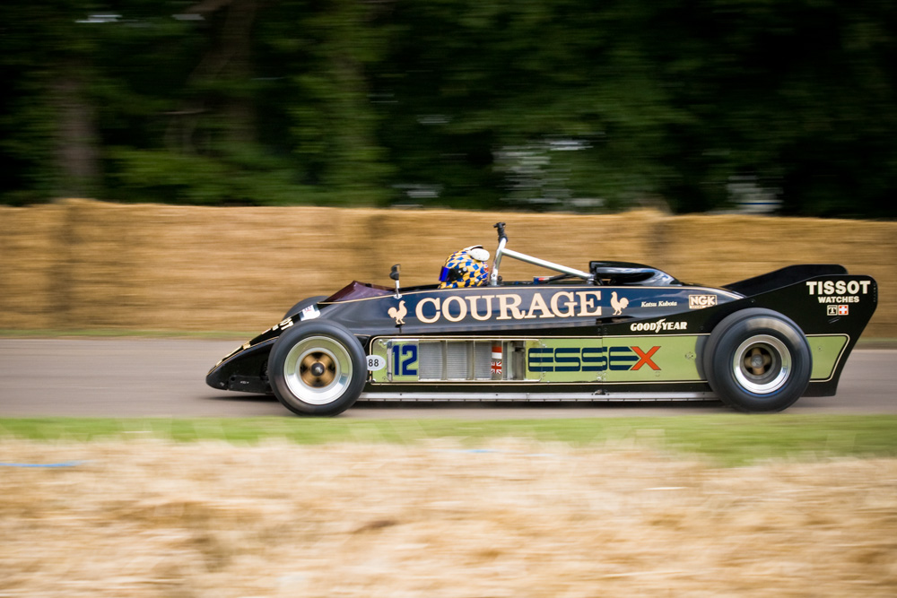 Lotus type 88 photographed at the Goodwood Festival of Speed in June, 2007.